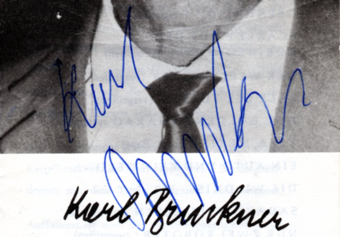 Autograph from the Austrian writer Karl Bruckner, 1971